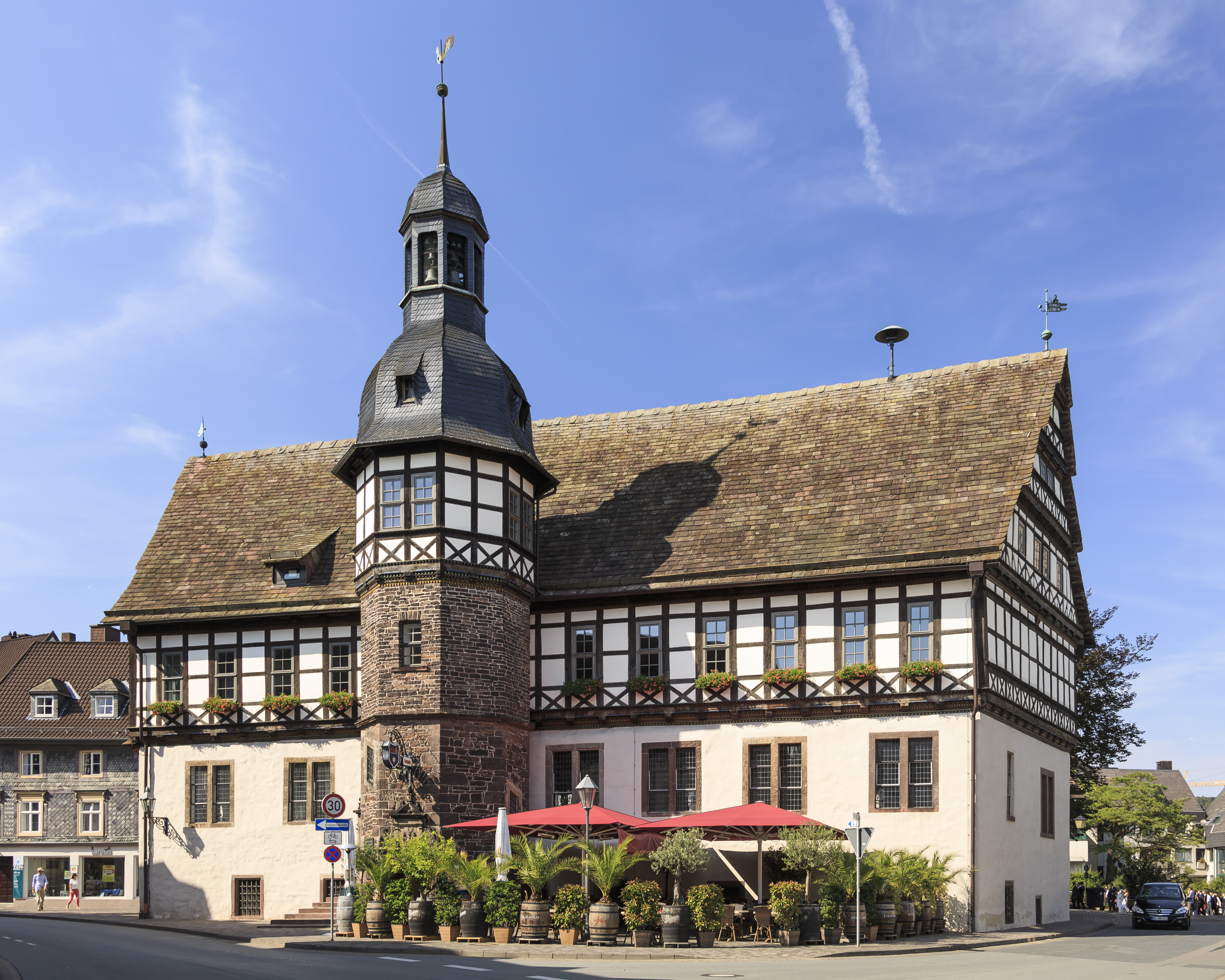 Höxter, Germany: Old town hall